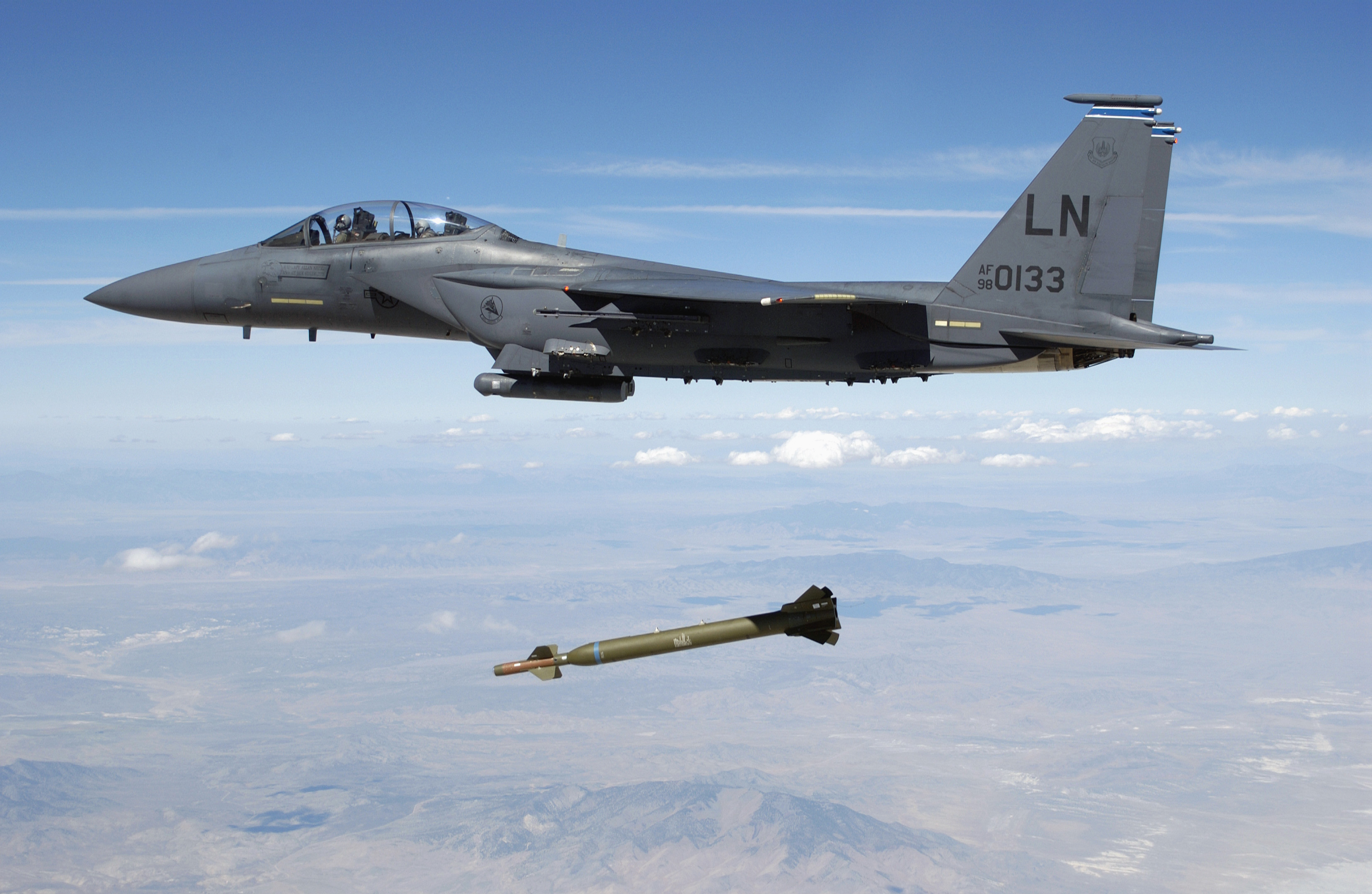 A US Air Force (USAF) F-15E Strike Eagle aircraft from the 492nd Fighter Squadron, Royal Air Force (RAF) Lakenheath, United Kingdom (UK) releases a GBU-28 "Bunker Buster" 5,000-pound Laser-Guided Bomb over the Utah Test and Training Range during a weapons evaluation test hosted by the 86th Fighter Weapons Squadron (FWS) from Eglin AFB, Florida (FL).